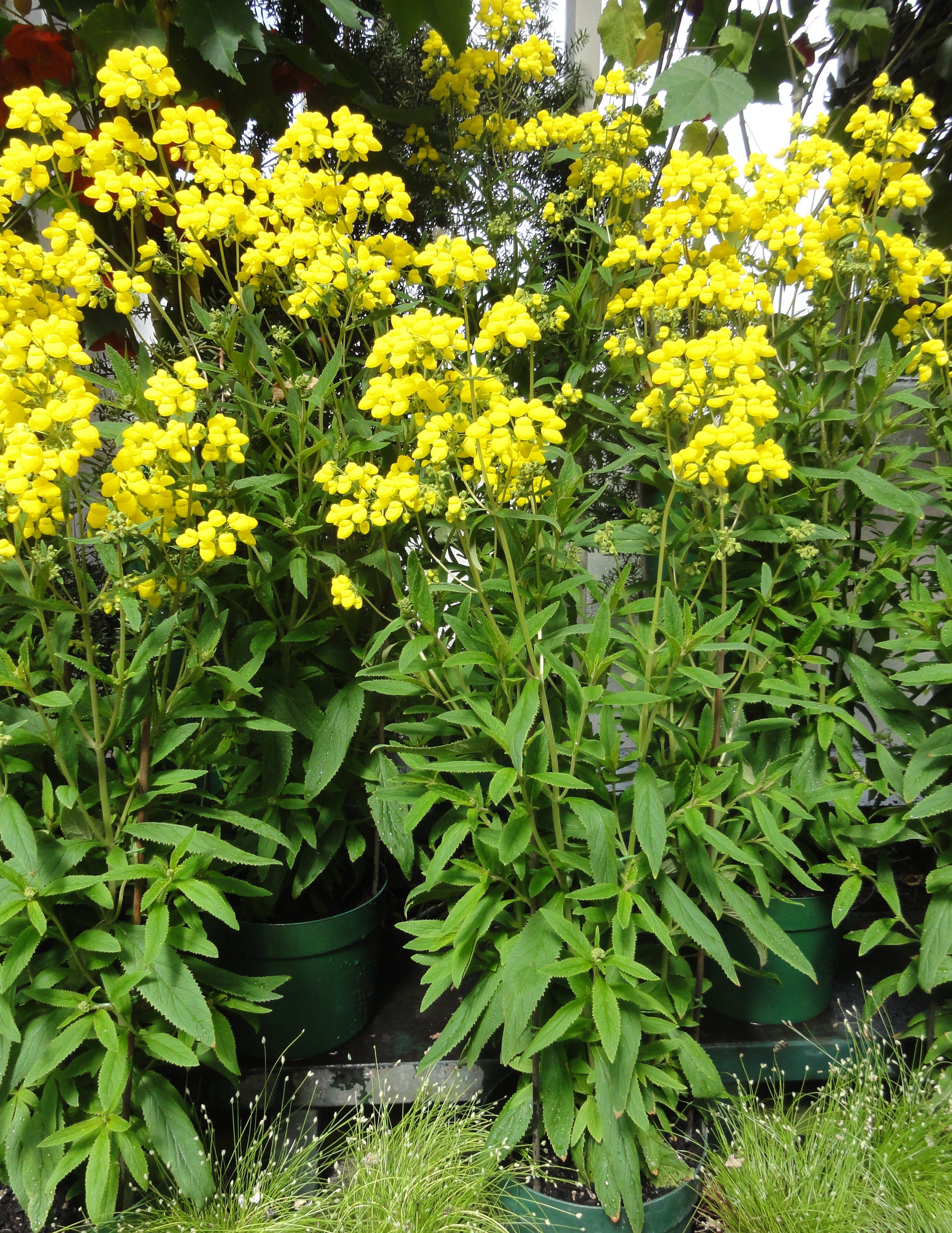 Calceolaria integrifolia, Auckland Winter Garden